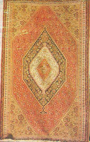 Armenian rug from Khoy